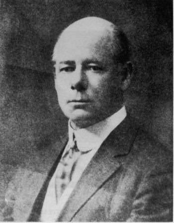 Morgan Robertson